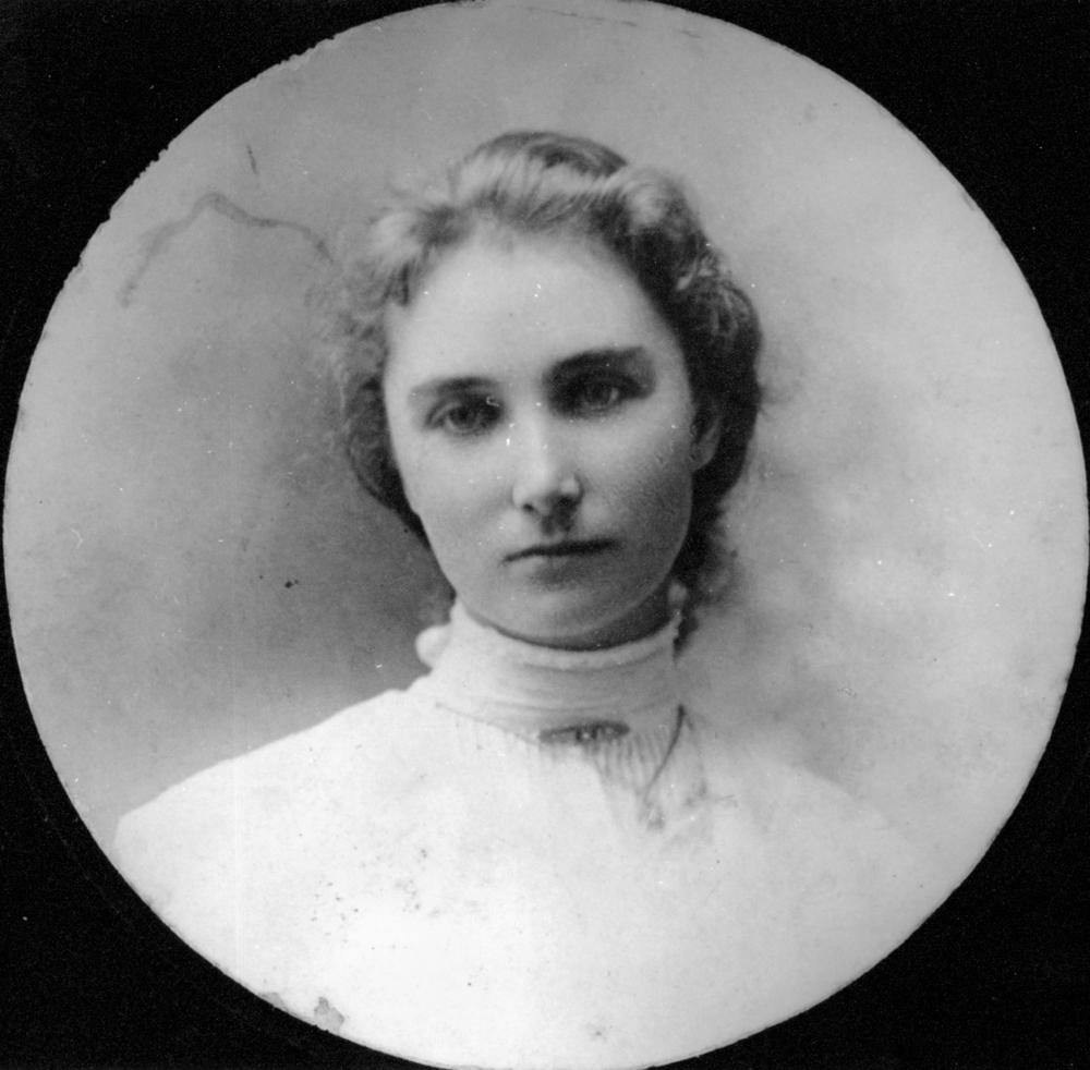 Irene Longman (1877-1964) : [suffragette movement in Queensland] Portrait of the young Irene Longman, Queensland's first female politician. Irene Maud Longman was the first woman both to stand for and be elected to the Queensland Parliament. She was a member of the Country and Progressive National Party and served the Electorate of Bulimba for the period 11 May 1929 to 11 June 1932. Irene was born at Franklin, Tasmania in 1877 and educated at Sydney Girls' High School and Redlands (SCEGS) North Sydney. She taught at Normanhurst in Sydney and at Rockhampton Girls' Grammar School. She gained a kindergarten diploma. In 1904 Irene married Hebert Albert Longman, director of the Queensland Museum (1917-45), in Toowoomba. January 2005 marks the centenary of women's suffrage in Queensland.On 5 January 1905, two years after the formation of the Queensland Women's Electoral League, the Electoral Franchise Bill was introduced into the Legislative Assembly to give the women of Queensland the right to vote. The Elections Acts Amendment Bill, providing the necessary machinery was introduced at the same time. Despite some misgivings about abolishing the plural vote, and difficulty with postal voting, these issues were overcome and the legislation giving the women of Queensland the right to vote was finally passed. It was assented to by the Lieutenant-Governor on 26 January 1905.